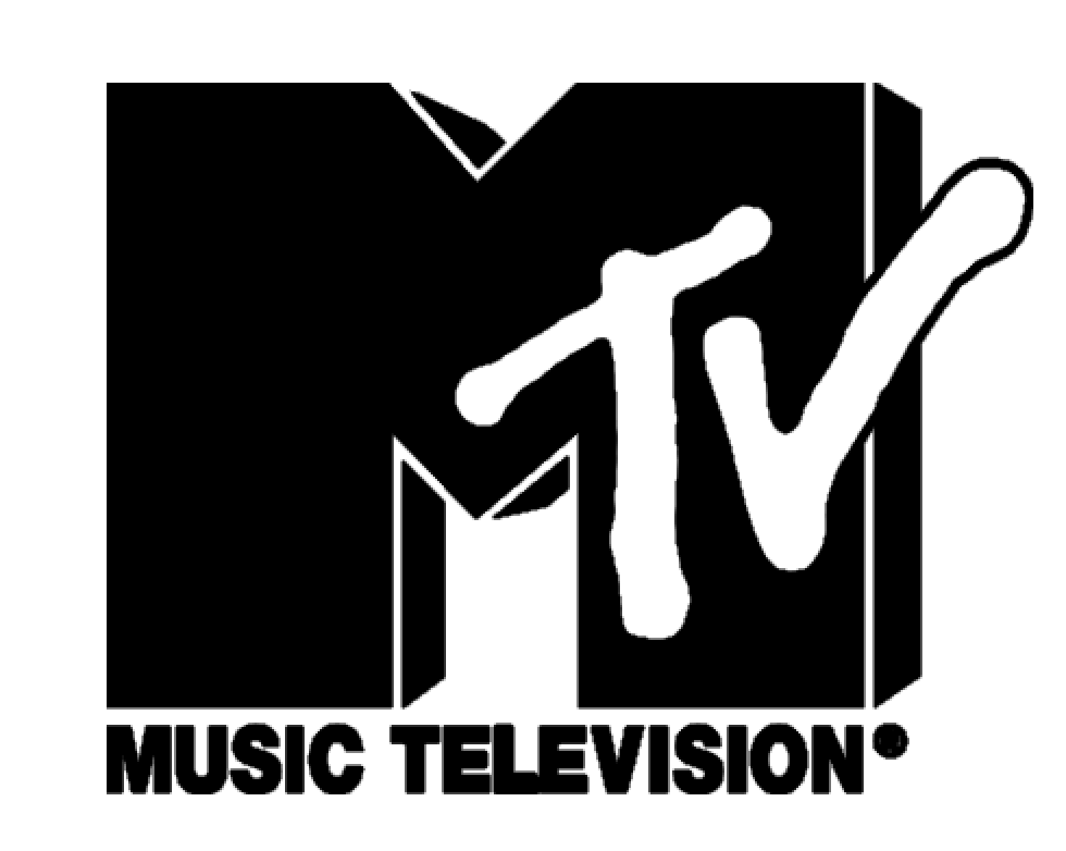 MTV logo before 1994.